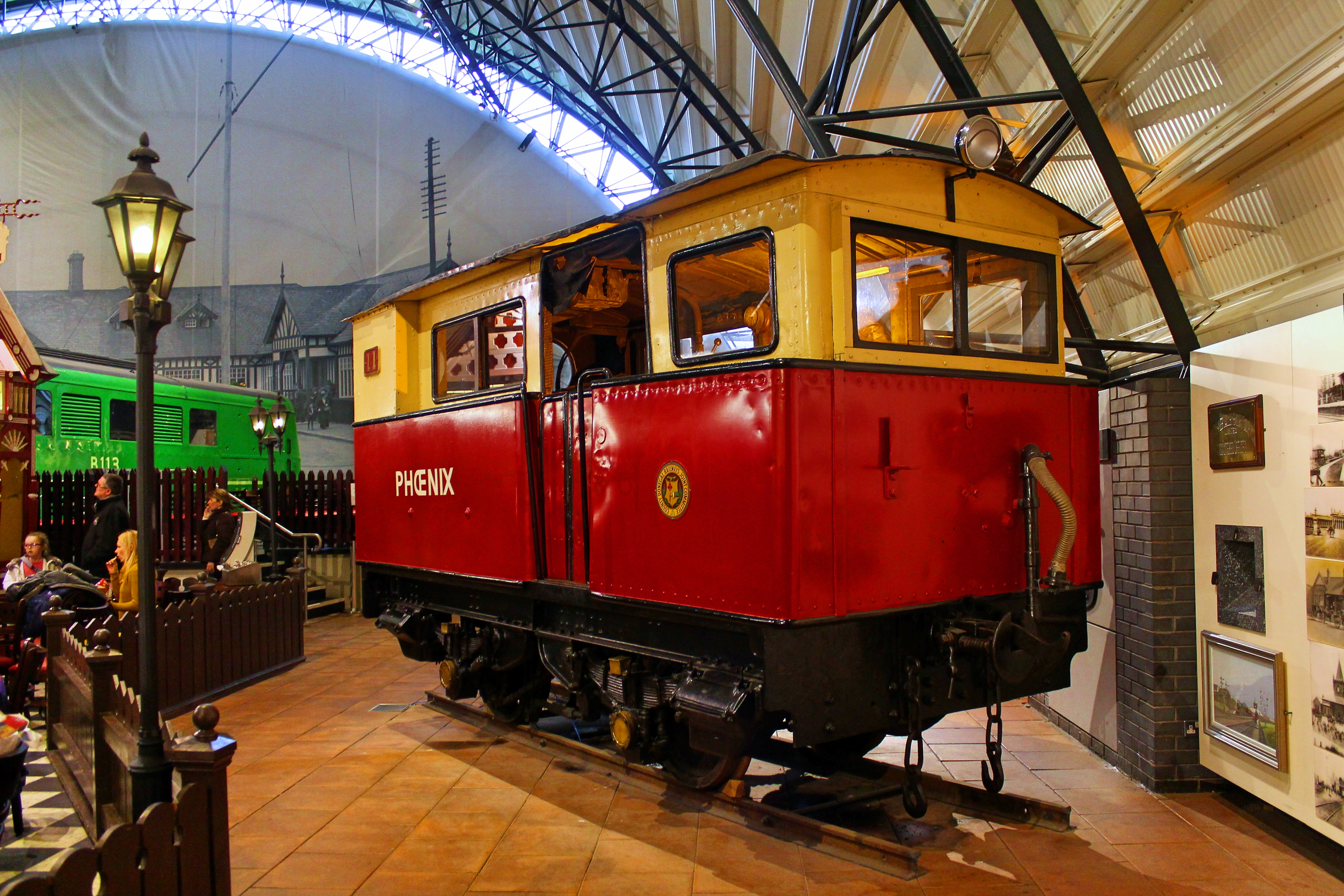 CDRJC Phoenix